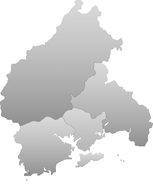 Map of Yangjiang in Guangdong province.